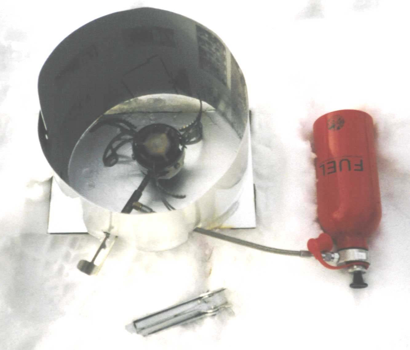 Novashield